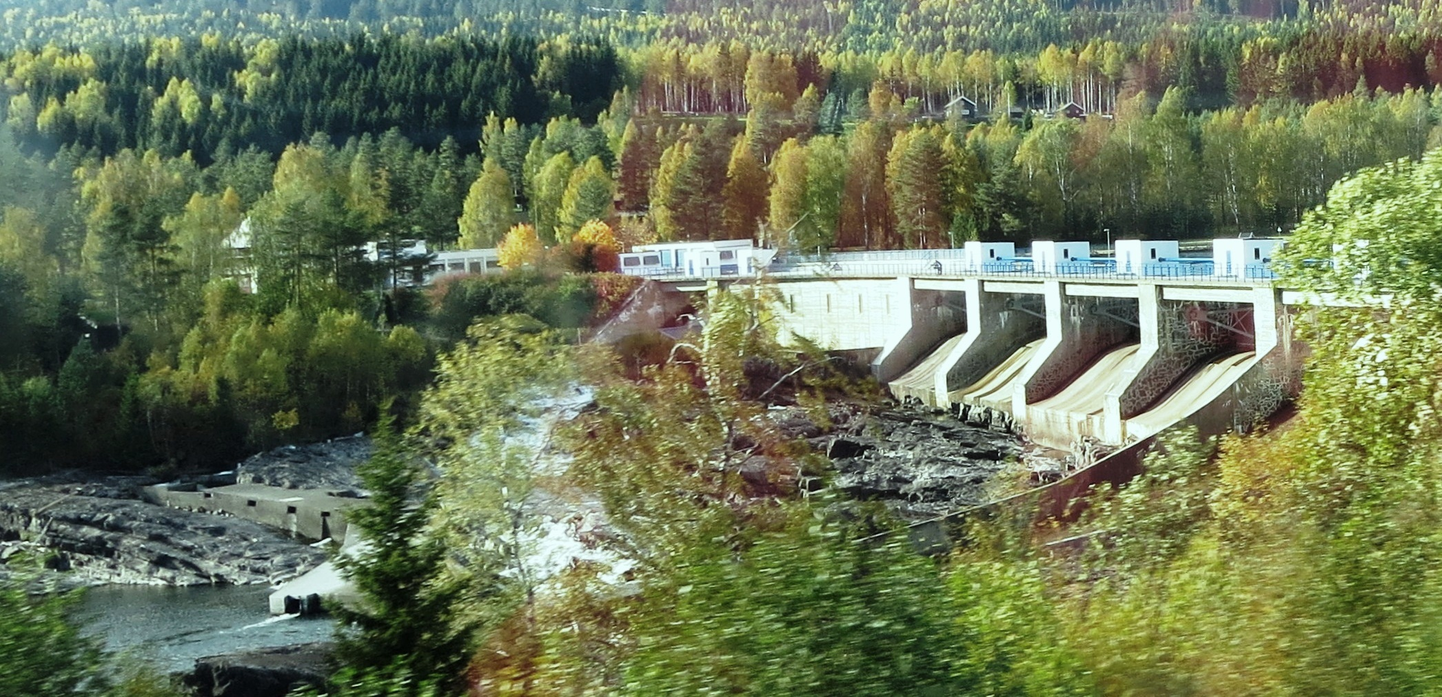 Image from the Hunderfossen reservoir in Lillehammer municipality, Norway. Immediately behind the dam (hydroelectric powerplant), there is a family amusement park.